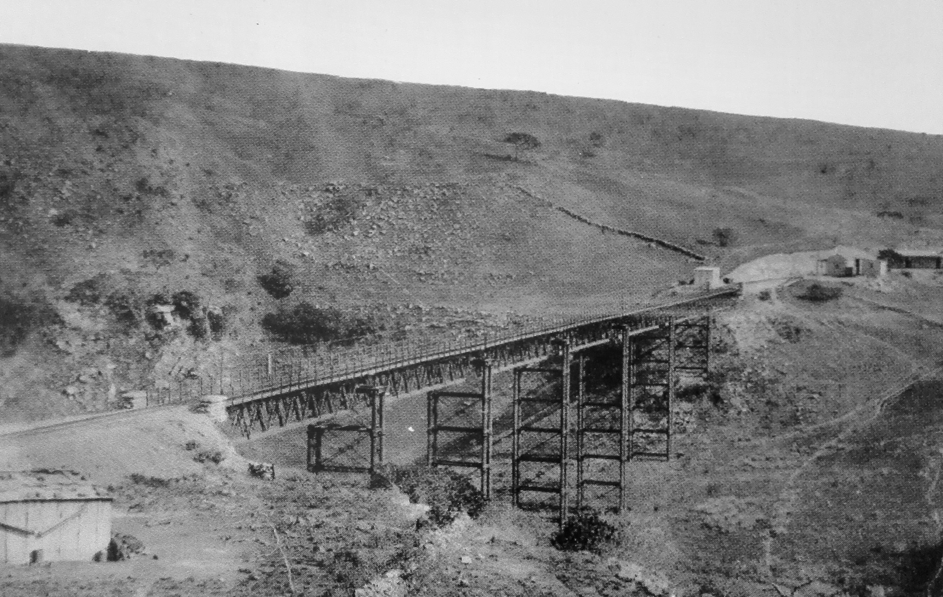 Original Caption: The Inchanga Viaduct (567 ft.), completed in March 1880